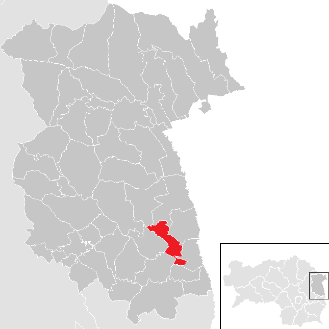 District Hartberg, Styria